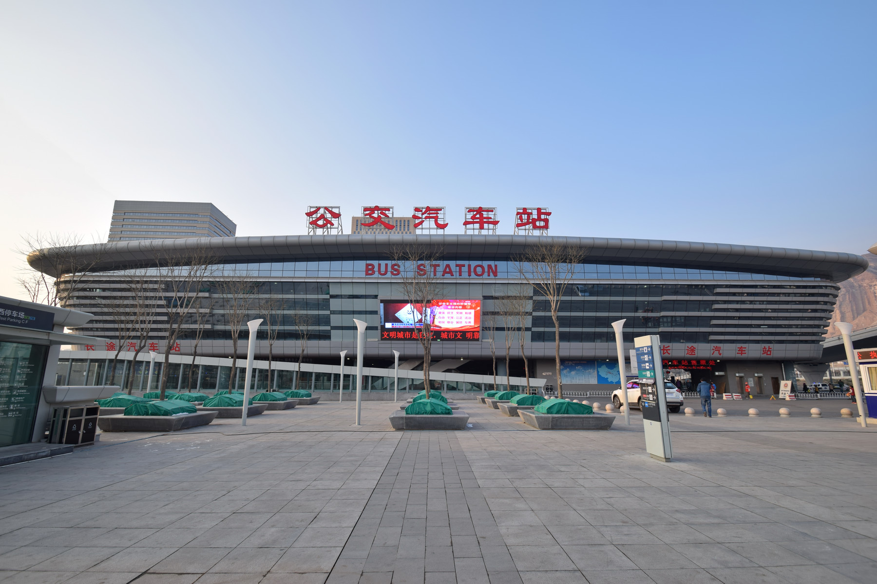 Bus station / long-distance coach station at Xining Railway Station